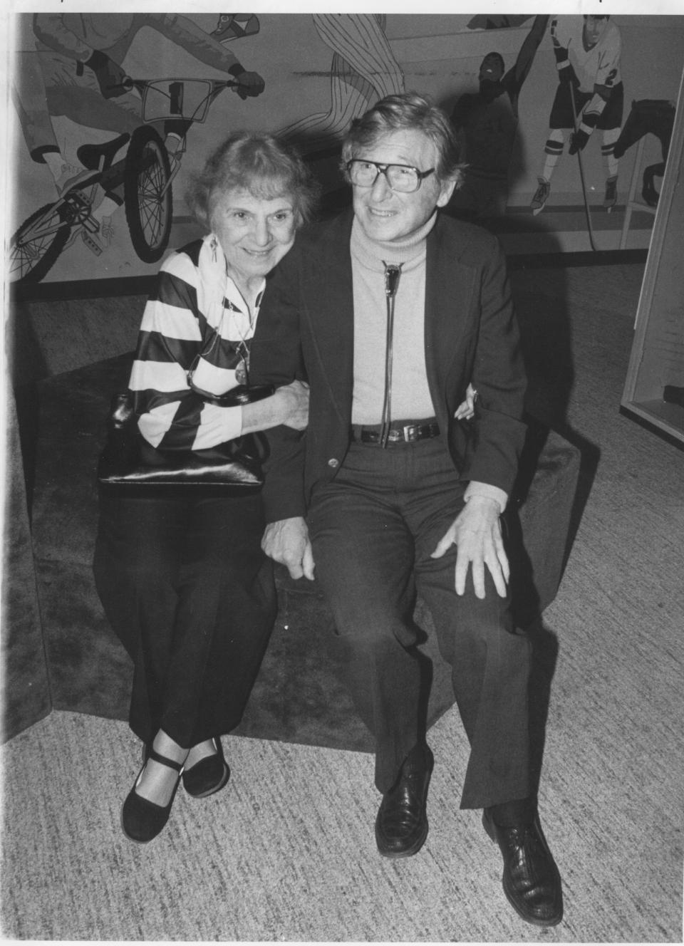 An image of Frank and Theresa Caplan from the archives of The Children's Museum of Indianapolis